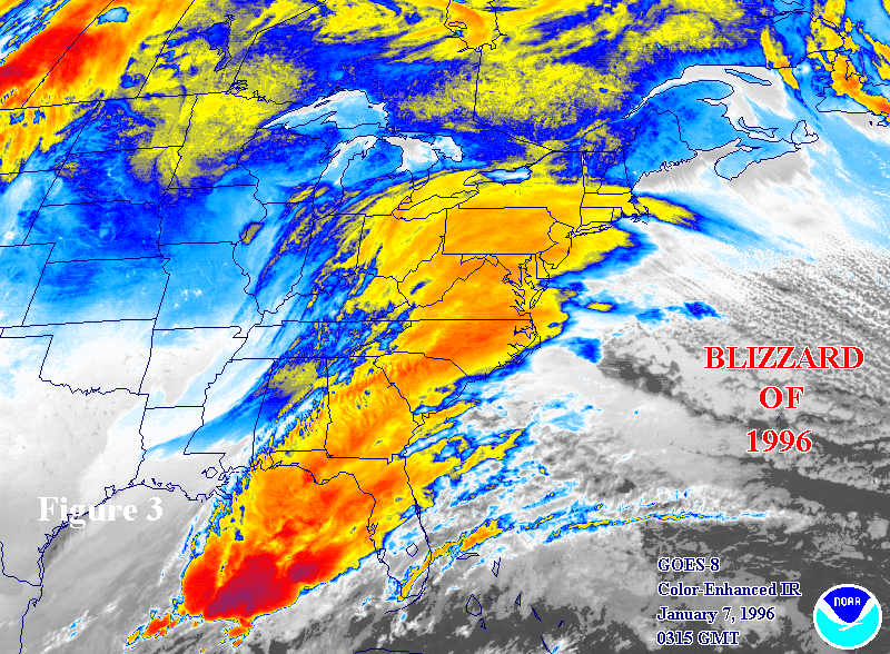 Satellite image of the 1996 North American Blizzard on January 7